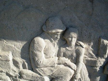 An elderly couple comfort each other- Part of Paul Ganuchaud's relief depicting life behind the front-line being one of two reliefs which form the Fort Mahon Plage monument aux morts. Fort Mahon Plage is in the Somme region of France.